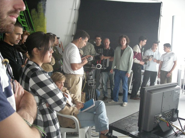 Estudiantes Escuela Nacional de Cine